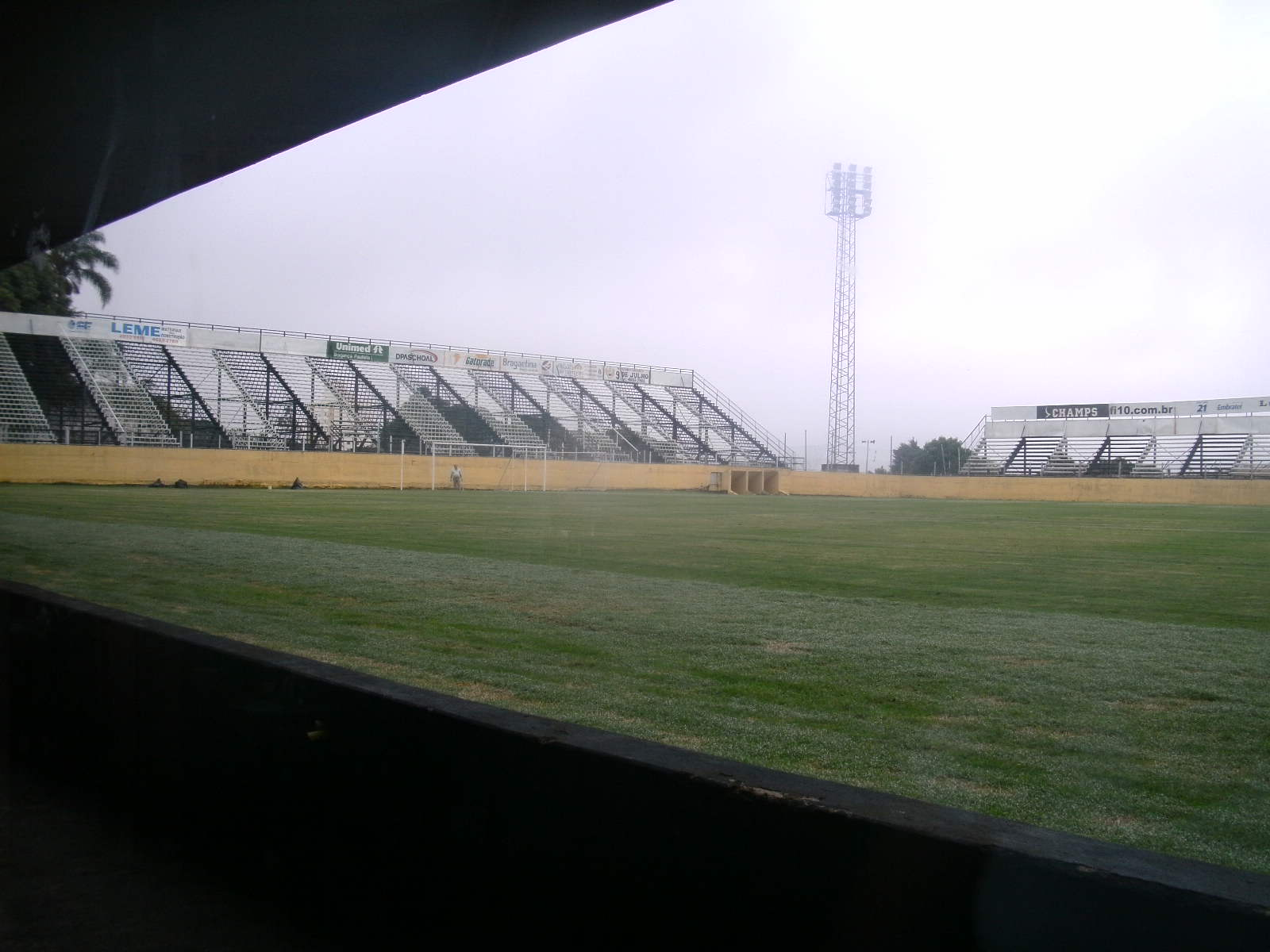 Estádio Nabi Abi Chedid, also known as Nabizão, is a football (soccer) stadium in Bragança Paulista, São Paulo state, Brazil. The stadium holds 21,209 people. It was built in 1949. The stadium is owned by Clube Atlético Bragantino